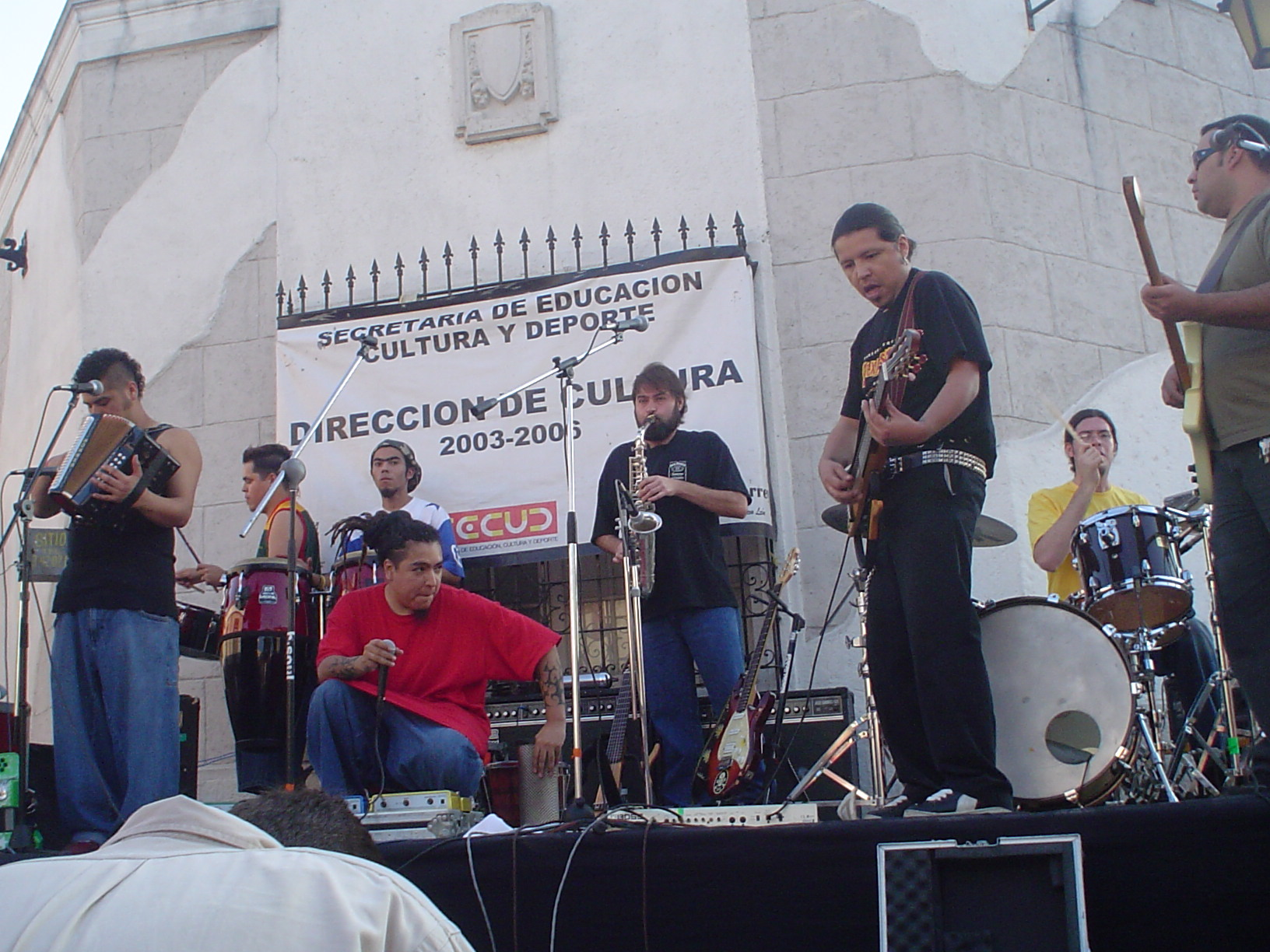 El Gran Silencio. Public performance at Barrio Antiguo, Monterrey, as part of the events at the Corredor del Arte. Taken on march 20th, 2005